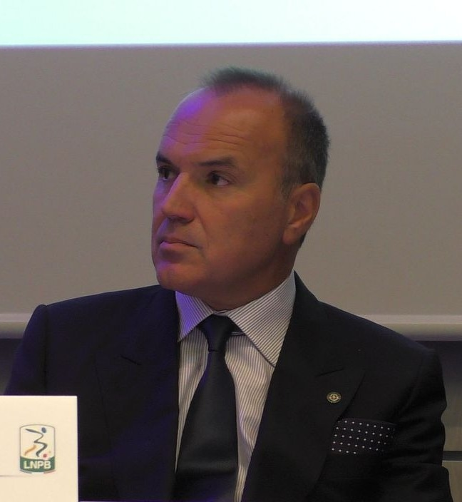 Italian Serie B President